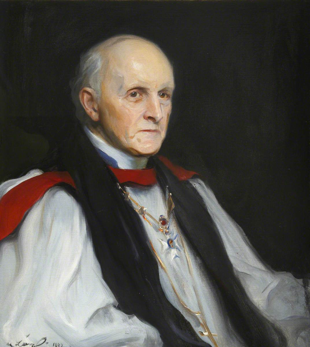 Cosmo Gordon Lang (1864-1945), Archbishop of Canterbury